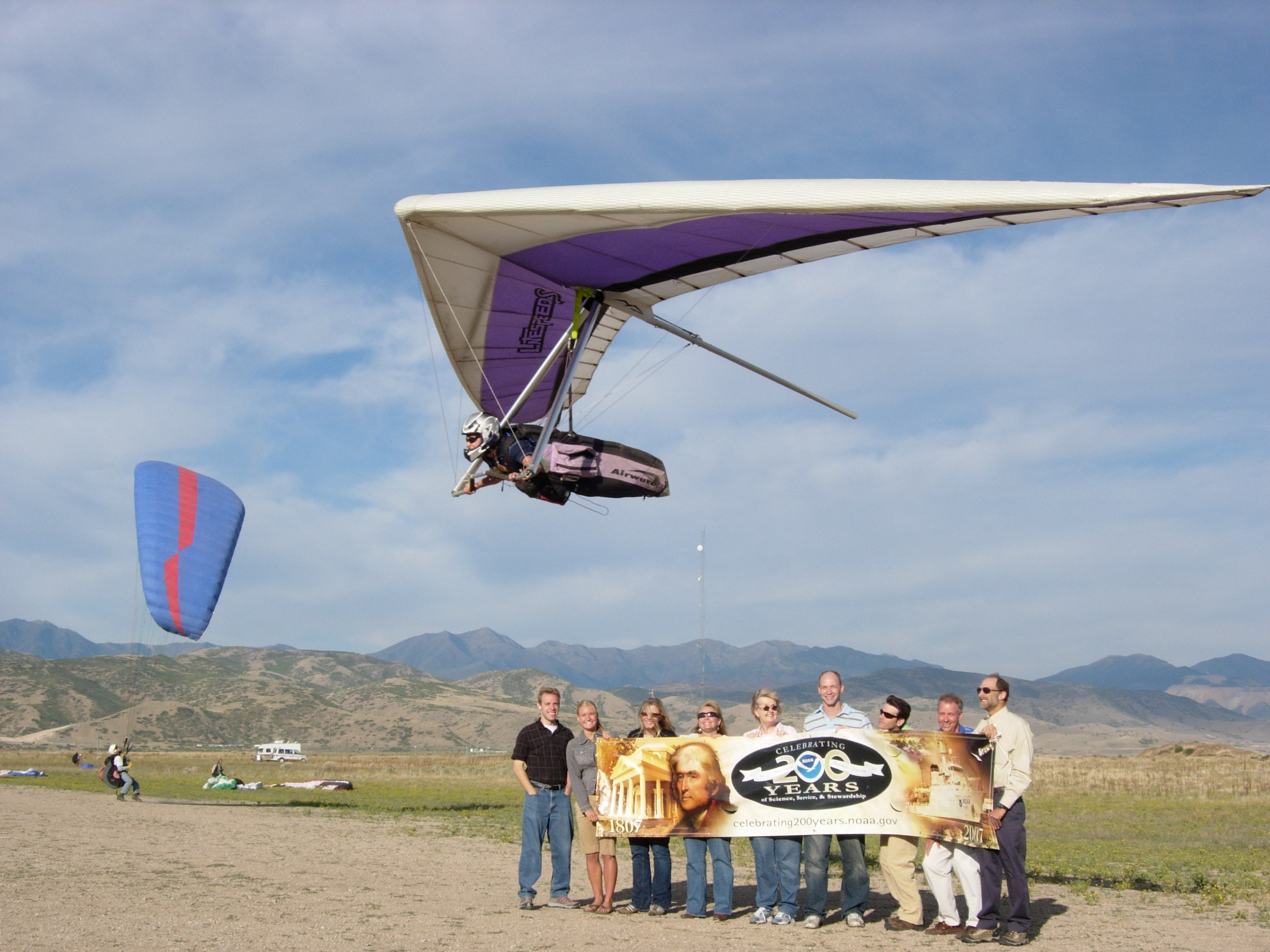 Hundreds of Utah glider pilots rely daily on NOAA’s National Weather Service Salt Lake City aviation services, including soaring forecasts and observed surface and upper air wind information. For flight tasks varying from localized ridge soaring (pictured above) to mountainous cross-country flights of several hundred miles, NOAA’s NWS provides pivotal data and forecasts to maximize the safety and performance of these non-motorized craft. Here at the Flight Park State Recreation Area, hang glider and paraglider pilots take advantage of the consistent south winds to soar for hours along the ancient Bonneville shoreline. Pictured: Lisa Verzella, hang glider pilot and former NOAA Student Career Experience Program participant, glides past NOAA team members from the Center Weather Service Unit Salt Lake City, Colorado Basin River Forecaster Center, and National Weather Service Salt Lake City.